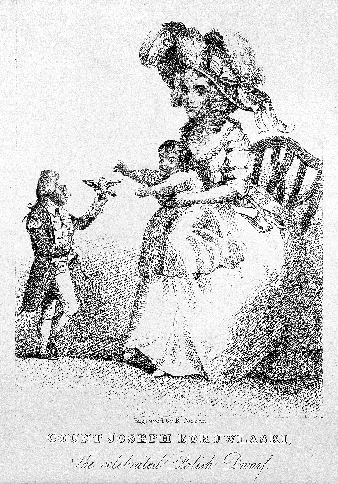 Portrait of Count Joseph Boruwlaski- Titled "Count Joseph Boruwlaski, the celebrated Polish Dwarf" Iconographic Collections Keywords: Joseph Boruwlaski; R. Cooper